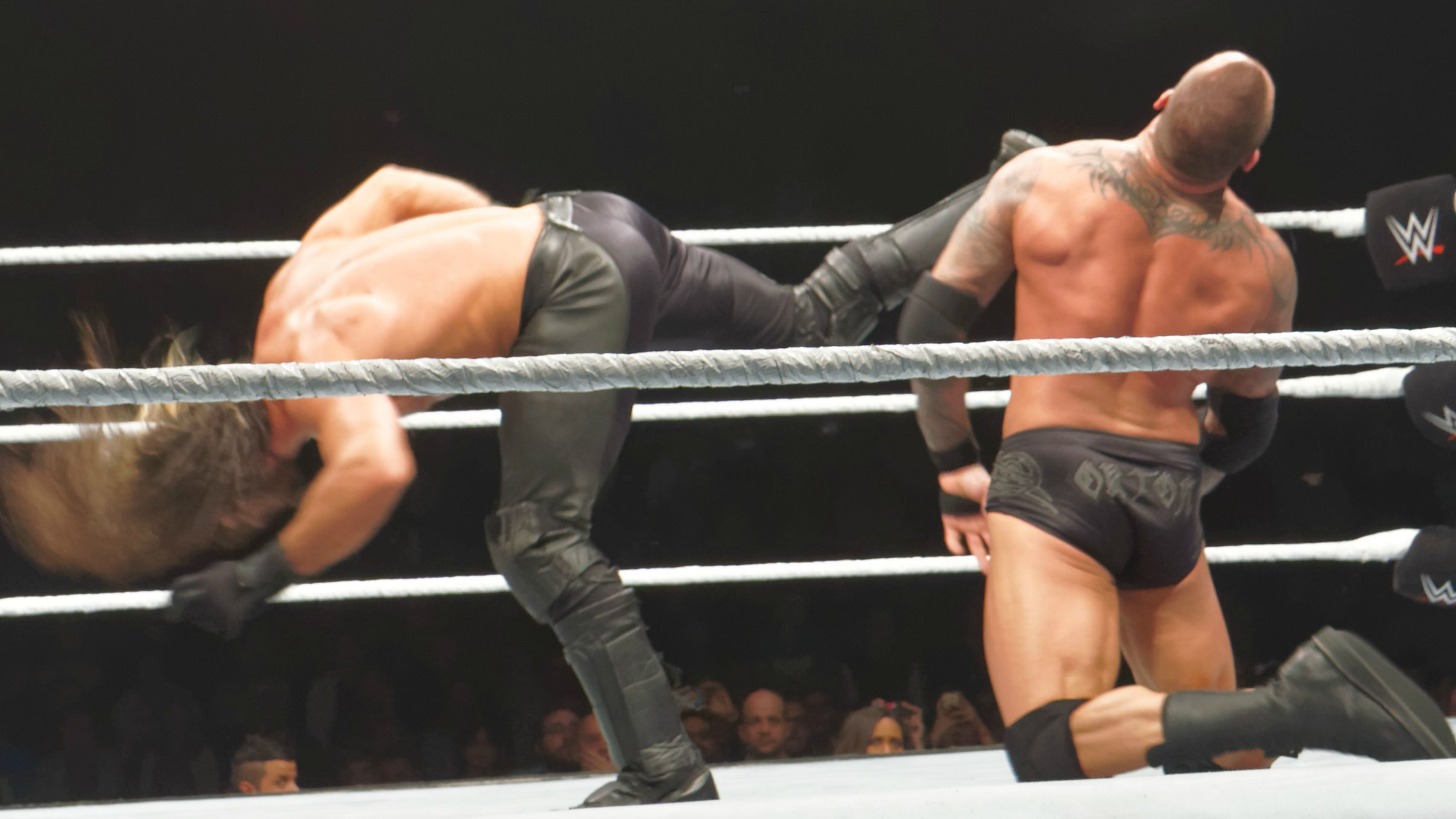 Seth Rollins applying a back kick on Randy Orton during a WWE live event in April 2015.